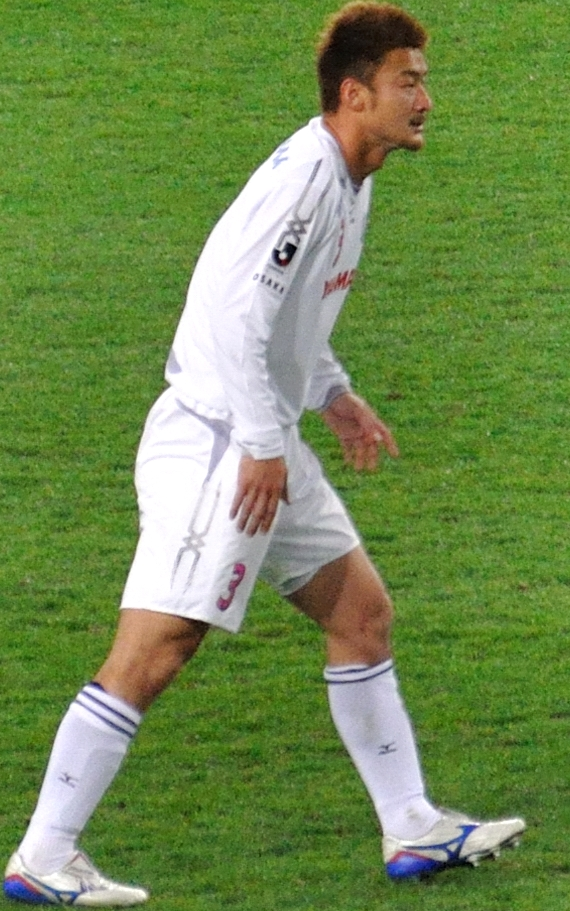 Teruyuki Moniwa from Cerezo Osaka